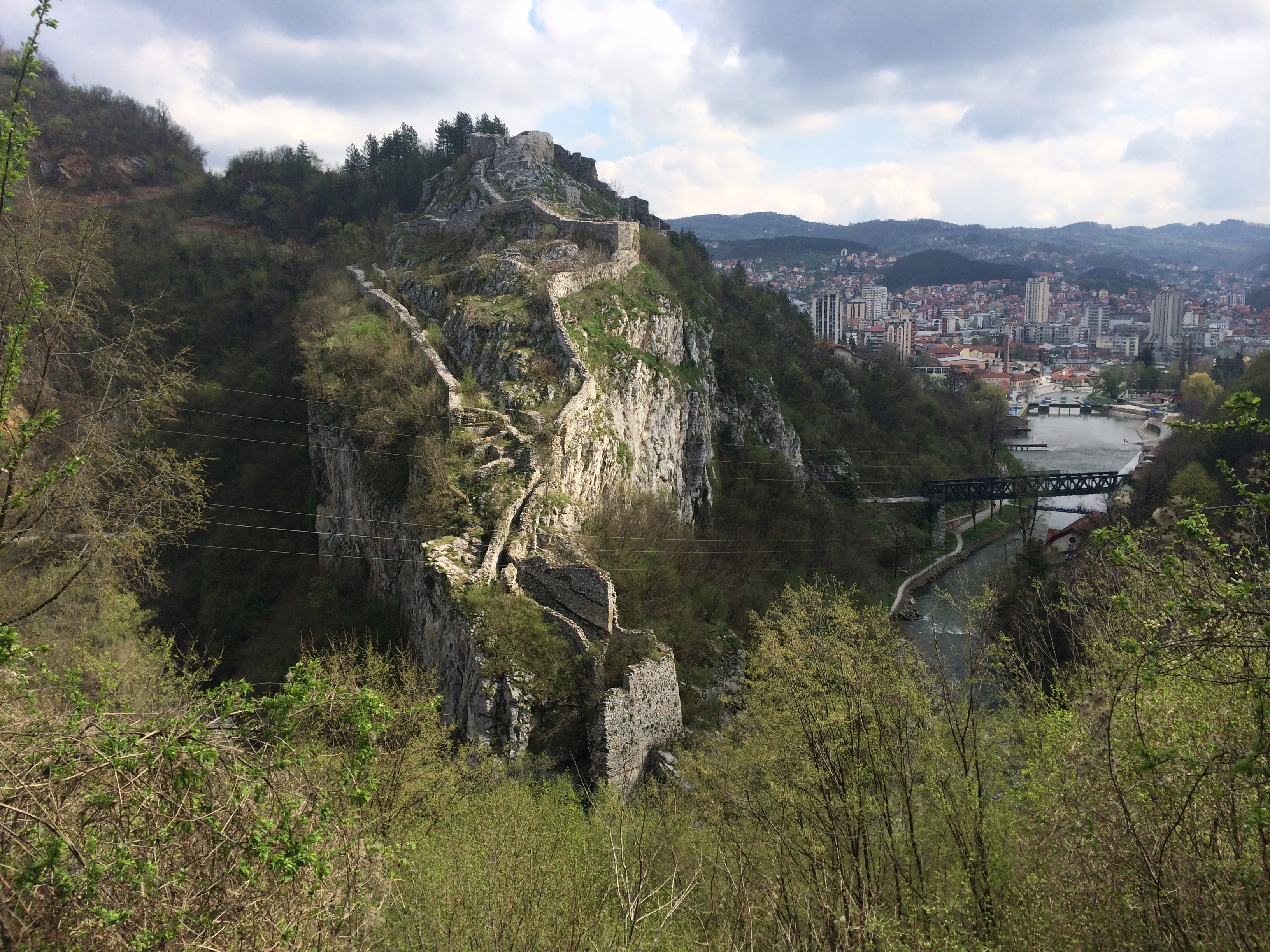 Image from the western part of the city Užice, west Serbia. The image shows the Old fortified town from the 1300s.